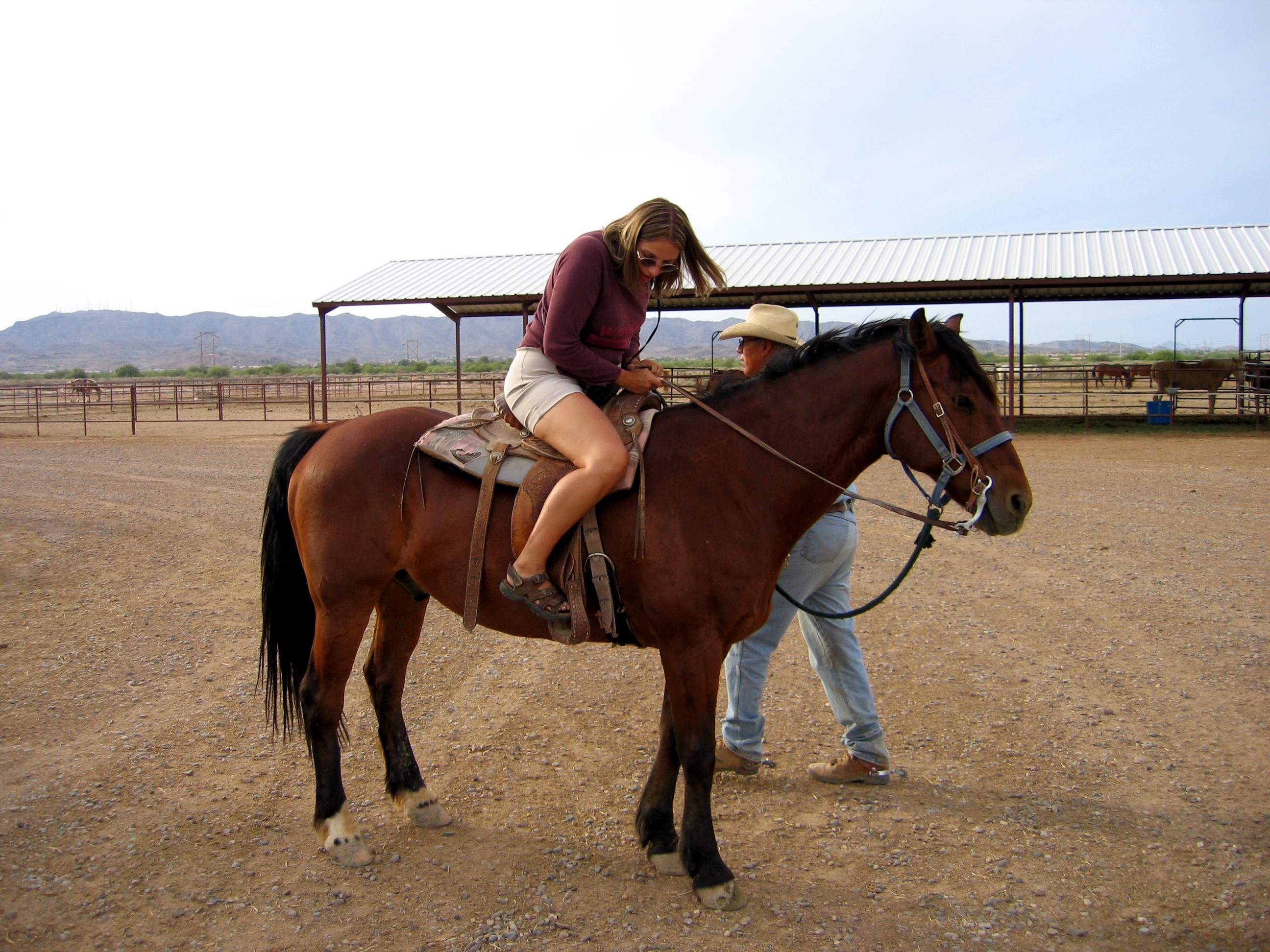 Riding a horse on a farm